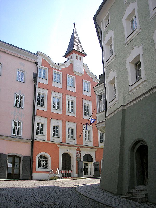 Laufen an der Salzach (Landkreis Berchtesgadener Land, Upper Bavaria, Germany). The old town hall, seen from the west